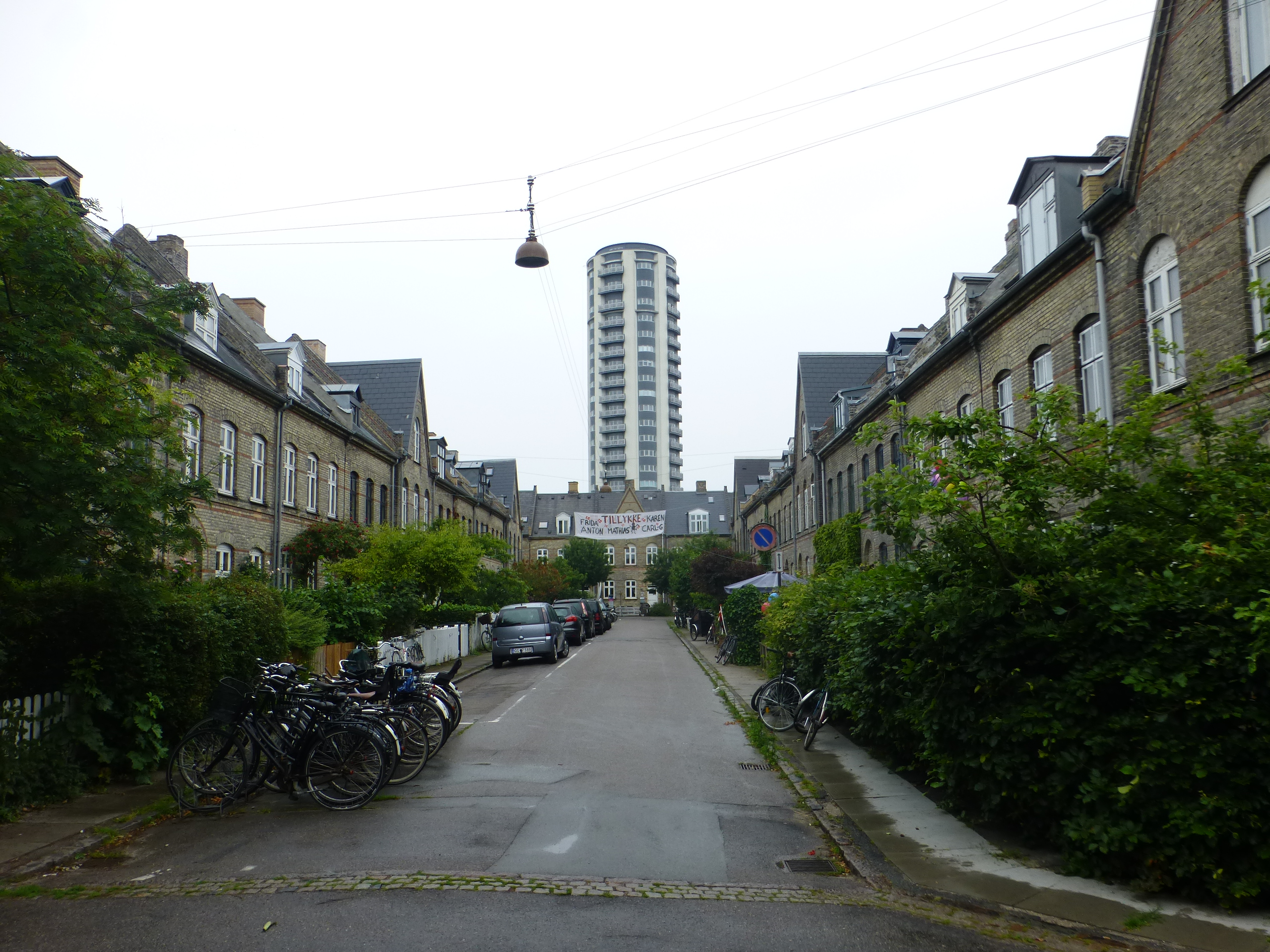 The street Bissensgade in the area Humlebyen in Vesterbro in Copenhagen.